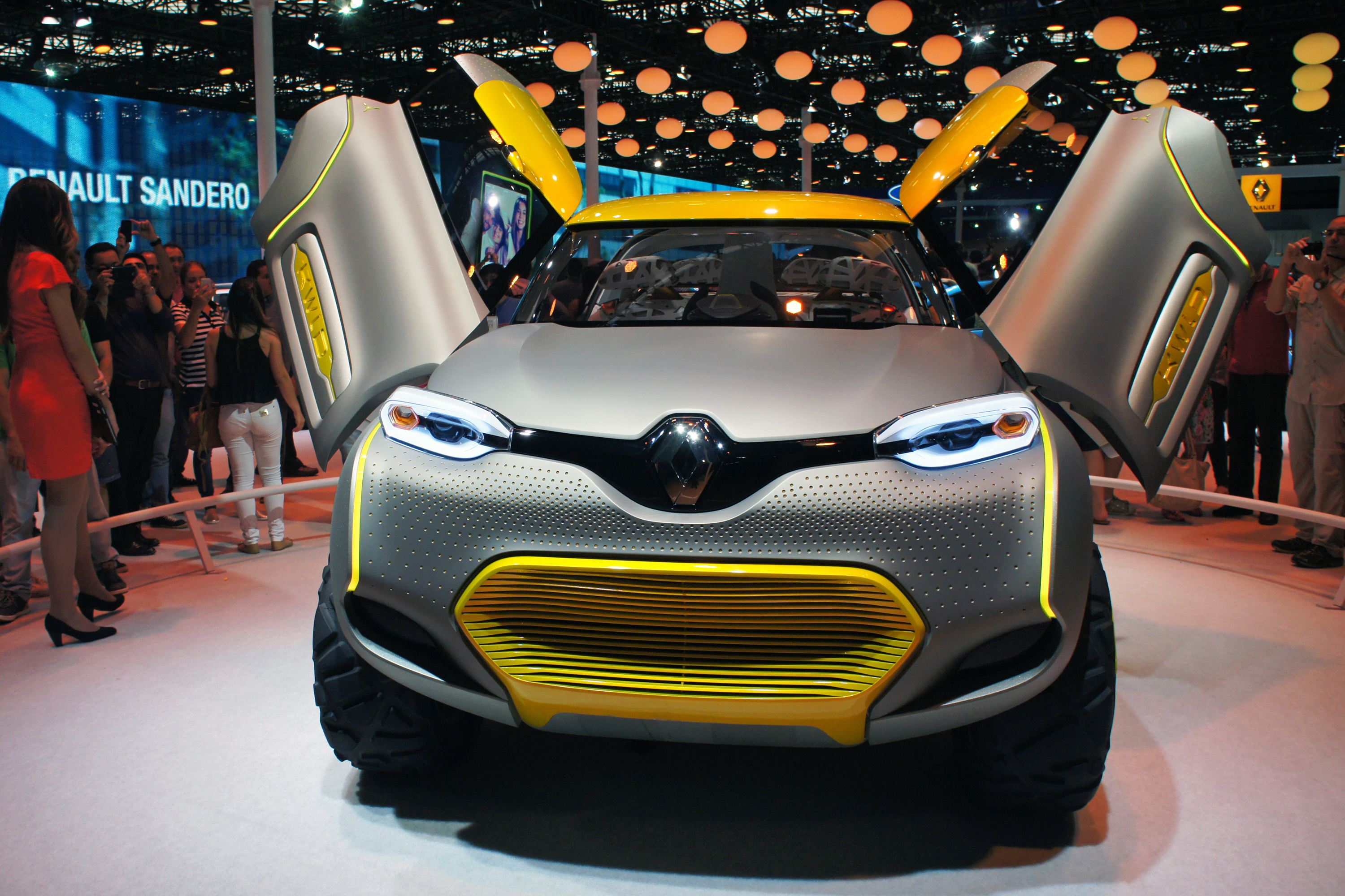 Renault KWLD concept exhibited at the Salão Internacional do Automóvel 2014 São Paulo